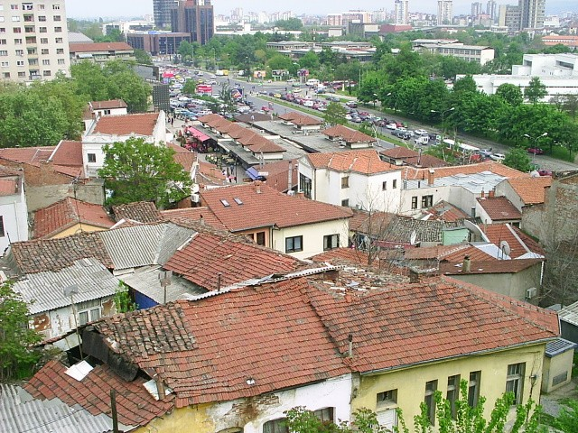 Skopje, capital of the Republic of Macedonia